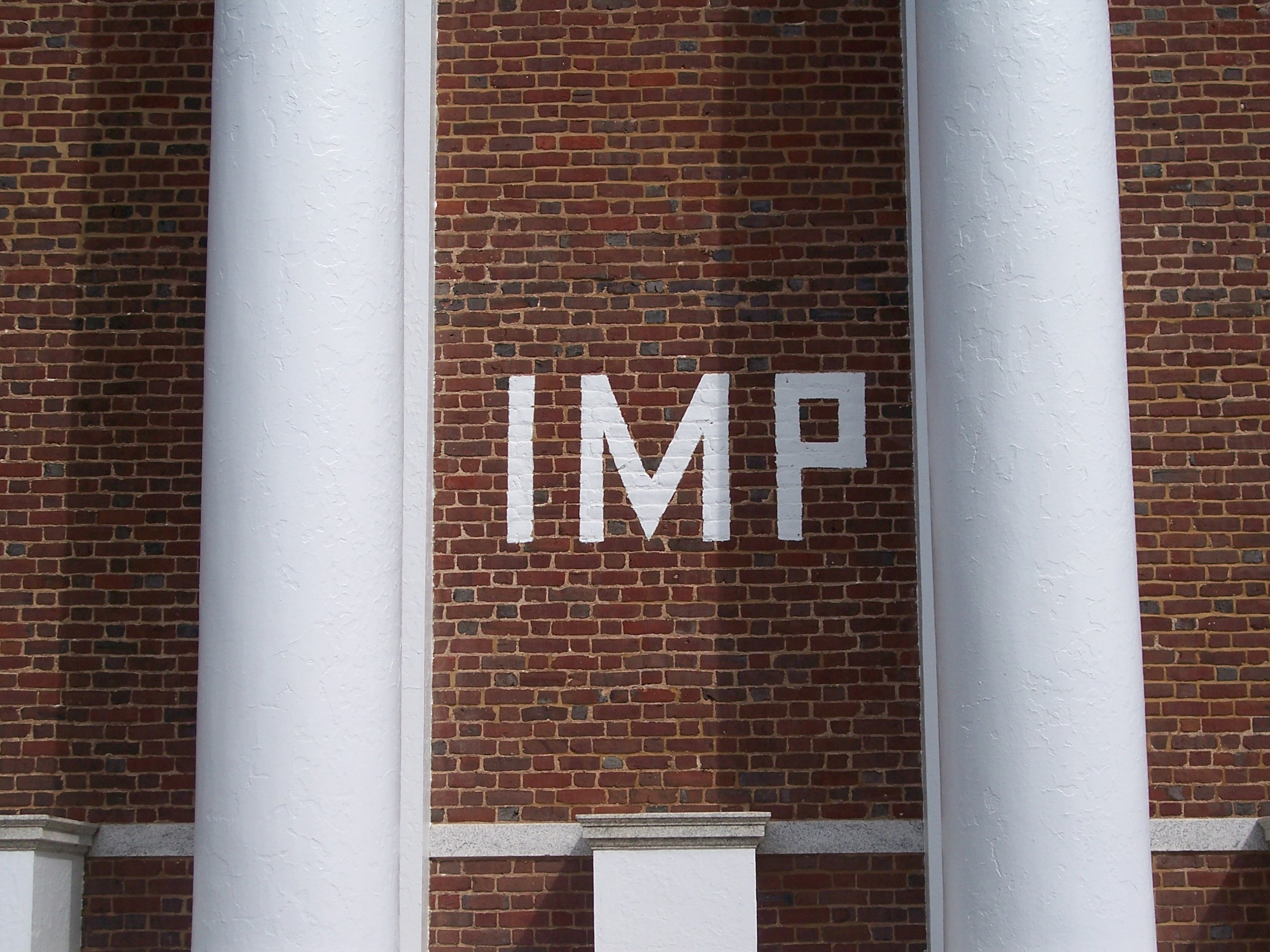 A sign of the IMP secret society on Rouss Hall at the University of Virginia